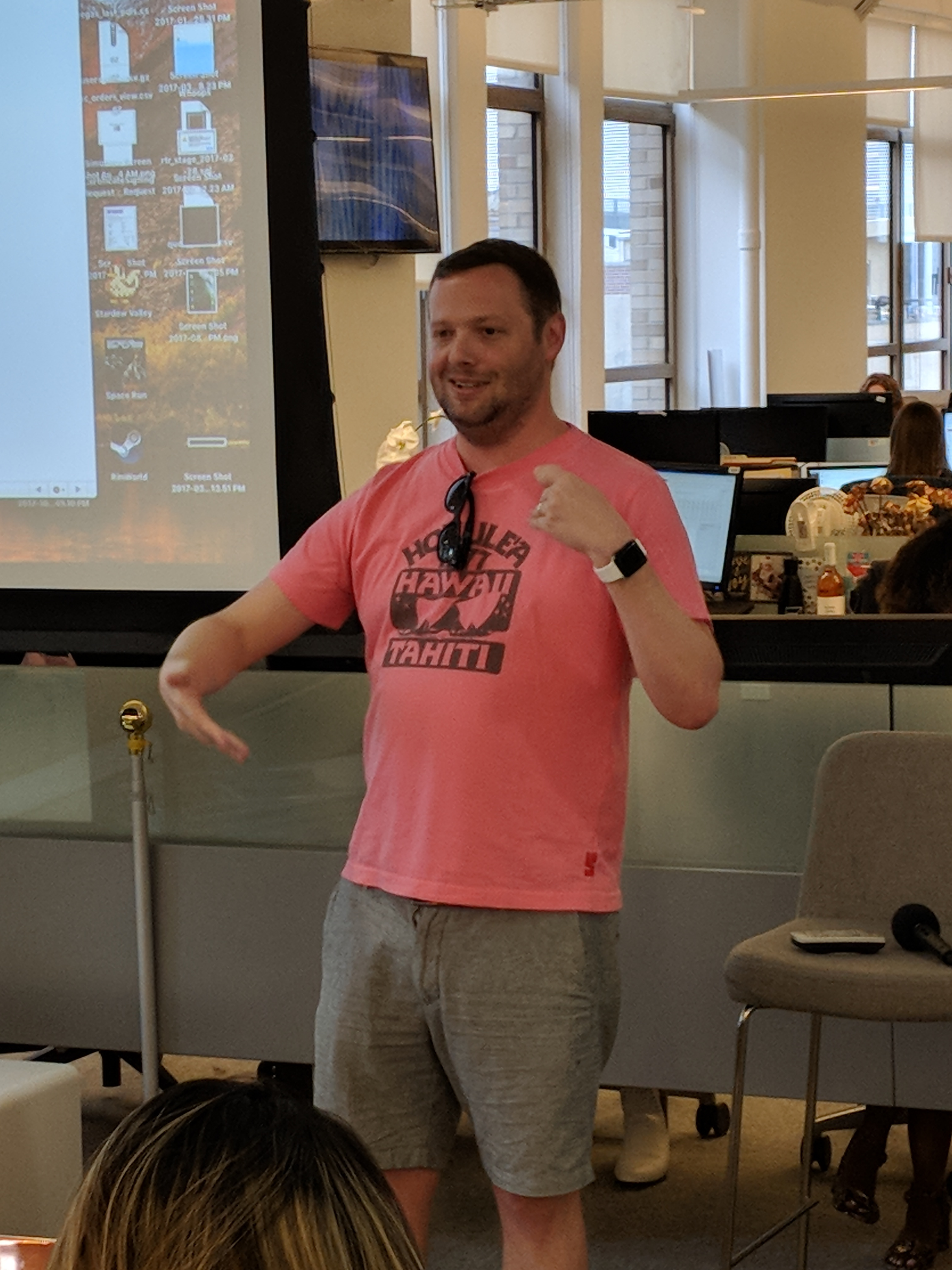 Hampton giving a talk at Rent The Runway